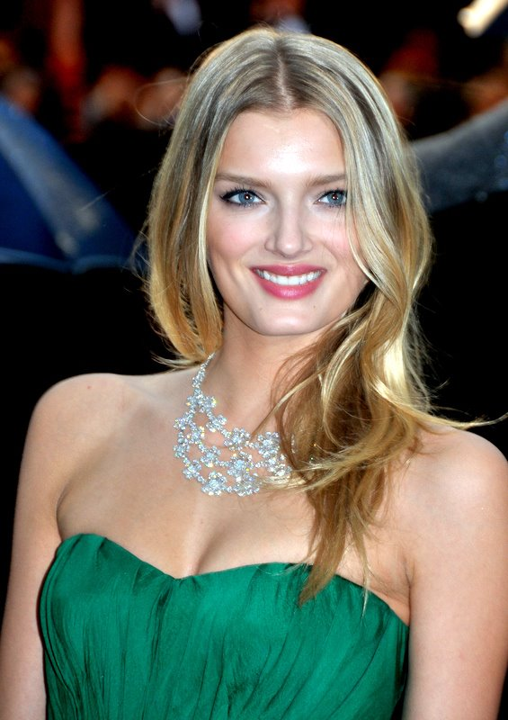 Lily Donaldson at the Cannes Film Festival